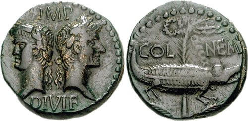 GAUL, Nemausus. Augustus, with Agrippa. 27 BC-AD 14. Æ As (12.90 g, 10h). Struck 9/8-3 BC. Head of Agrippa left, wearing rostral crown, and head of Augustus right, wearing oak wreath, back to back / Chained crocodile standing right; palm and filleted wreath behind; palms on either side of stem base. RPC I 524; RIC I 158. Good VF, hard dark green patina with traces of earthen overtones.